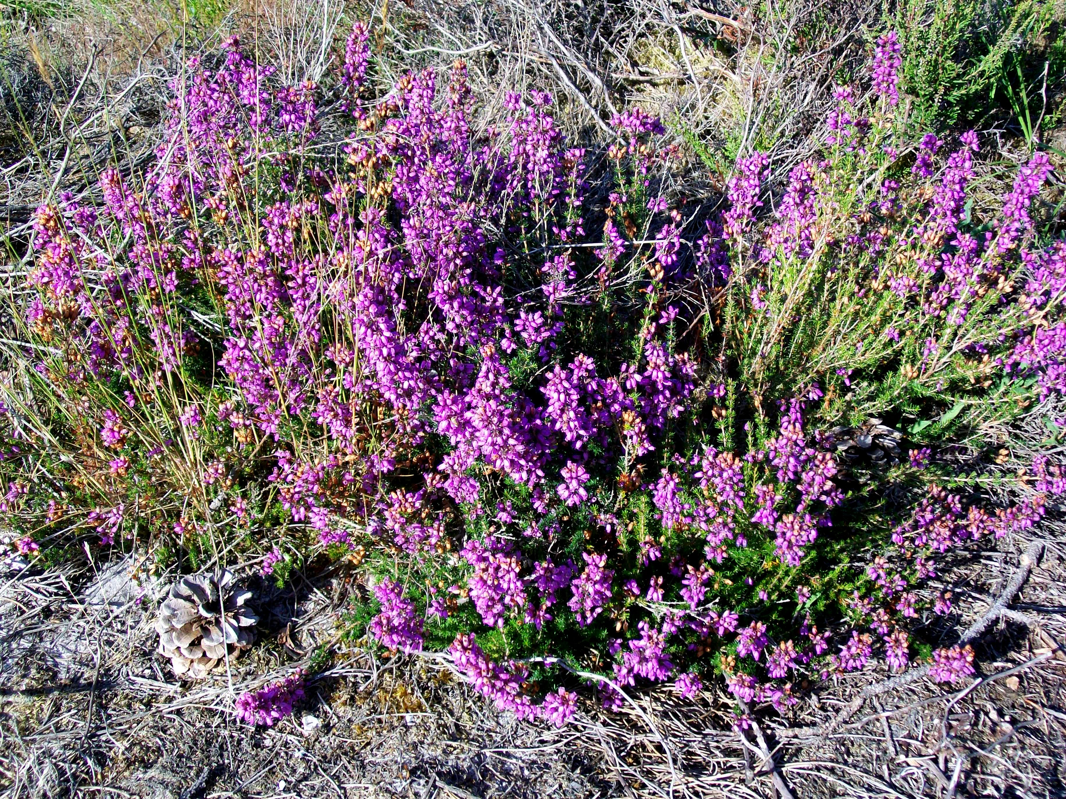 Bruyère cendrée, route de la Haute-Chaume, parcelle 130, zone en cours de restauration.